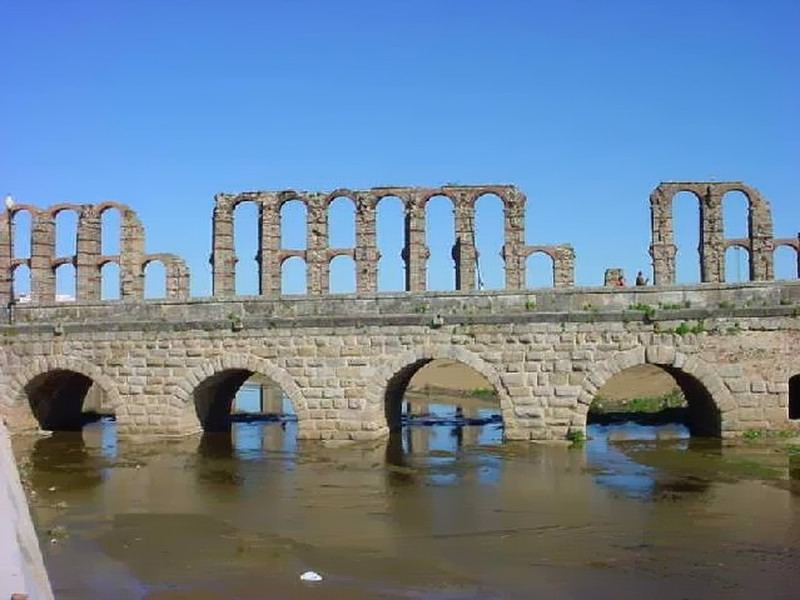 River albarregas, Roman aqueduct and bridge.